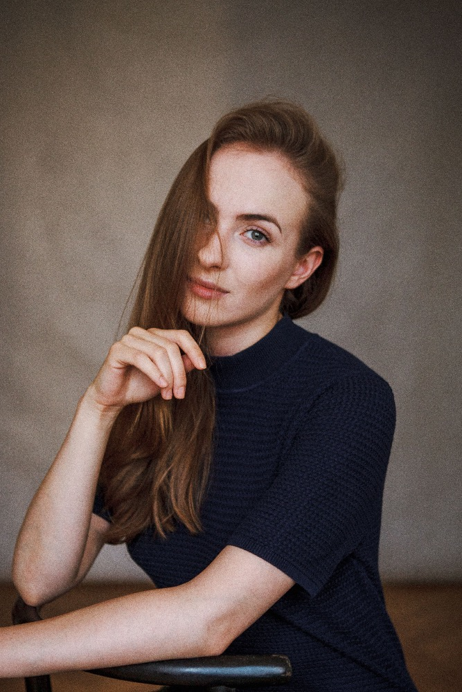 Elizaveta Maximová by Nikolas Tušl